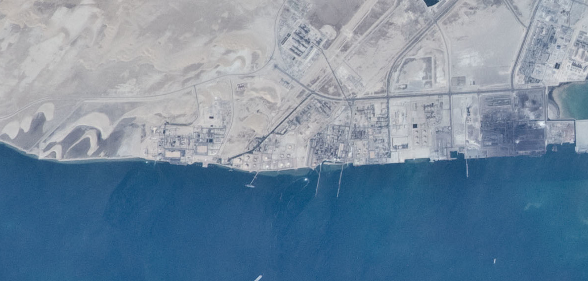 Satellite imagery of Mesaieed and Al Wakrah City taken in 2010 by NASA.